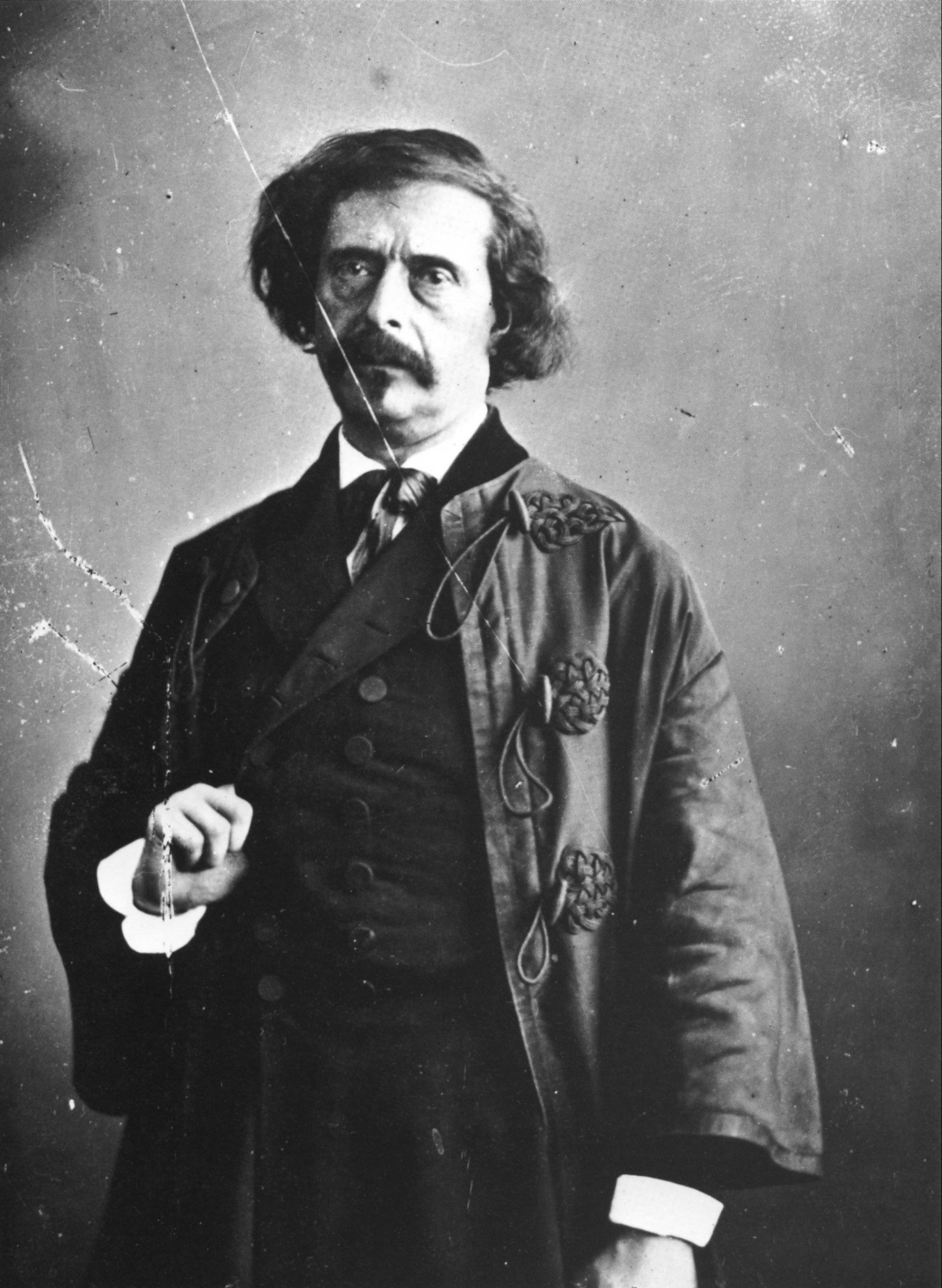 Photography of Jules Barbey d'Aurevilly by Félix Nadar